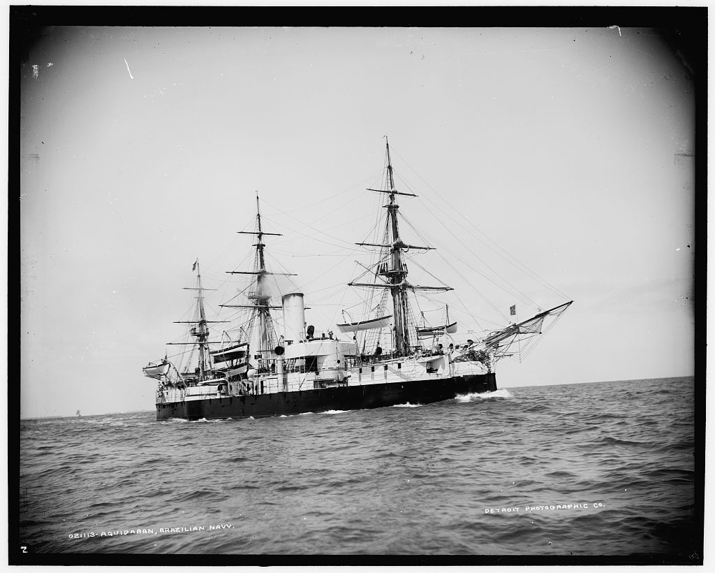 Title: Aquidaban, Brazilian navy Related Names: Detroit Publishing Co. publisher Date Created/Published: [1893] Medium: 1 negative : glass ; 8 x 10 in. Part of: Detroit Publishing Company Photograph Collection Reproduction Number: LC-D4-21113 (b&w glass neg.) Call Number: LC-D4-21113 [P&P] Repository: Library of Congress Prints and Photographs Division Washington, D.C. 20540 USA Notes: Detroit Publishing Co. no. 021113. Gift; State Historical Society of Colorado; 1949.